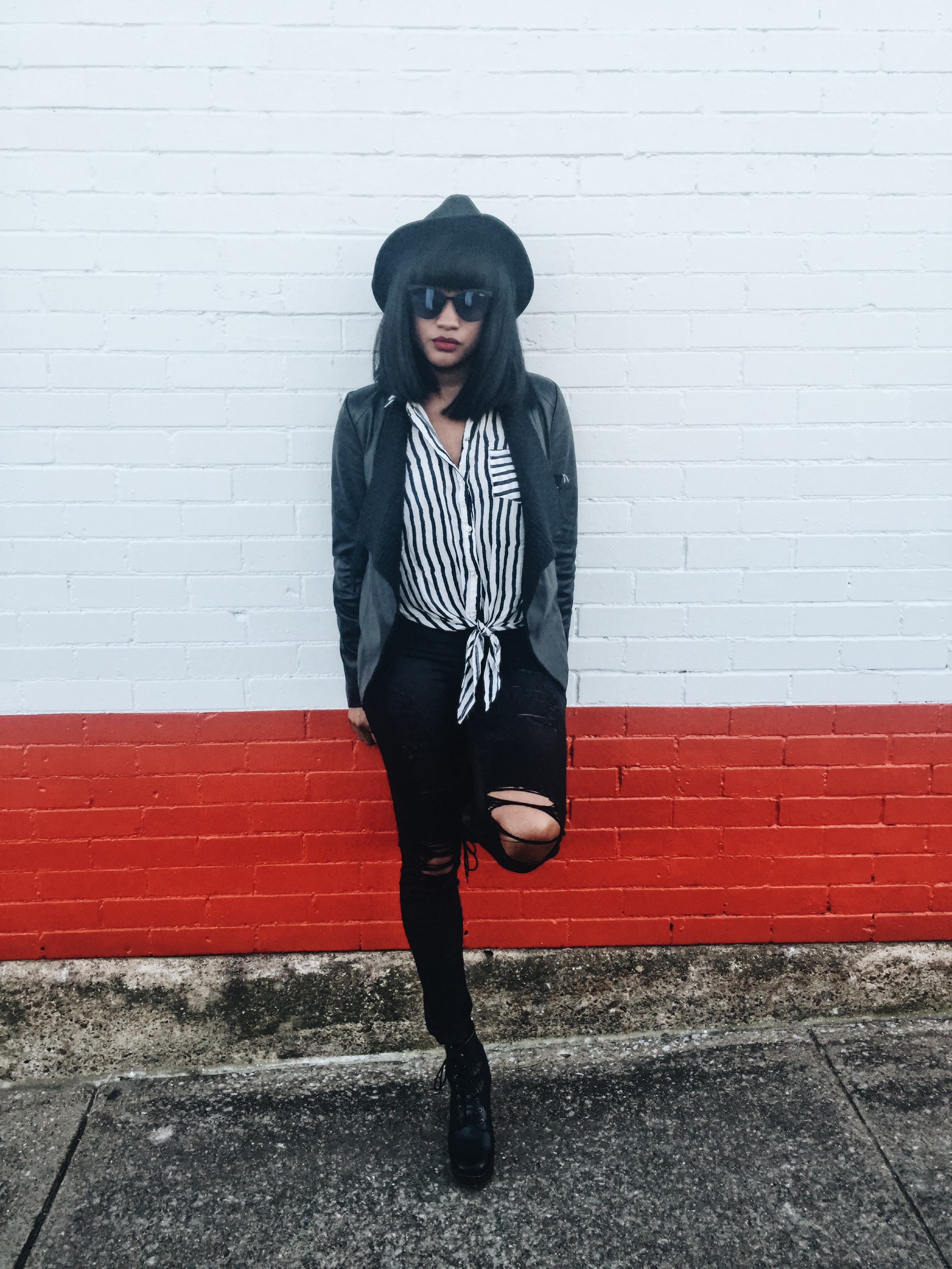 In Nashville